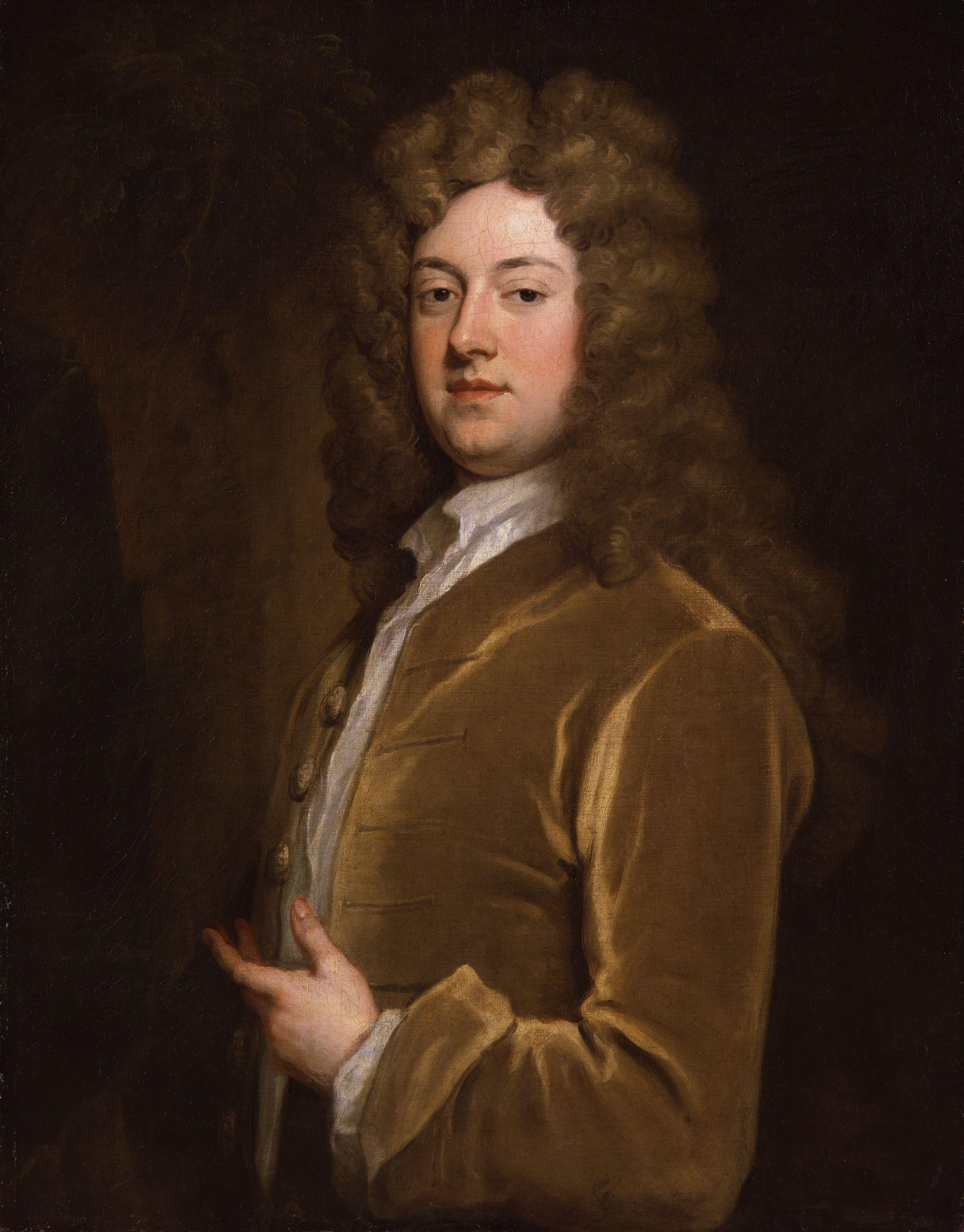 Edmund Dunch (or Dunche) (14 December 1657 Westminster – 31 May 1719 Little Wittenham) was Master of the Royal Household to Queen Anne and a British Member of parliament, painting by Sir Godfrey Kneller, Bt (died 1723), given to the National Portrait Gallery, London in 1945. All images in this batch have been confirmed as author died before 1939 according to the official death date listed by the NPG.